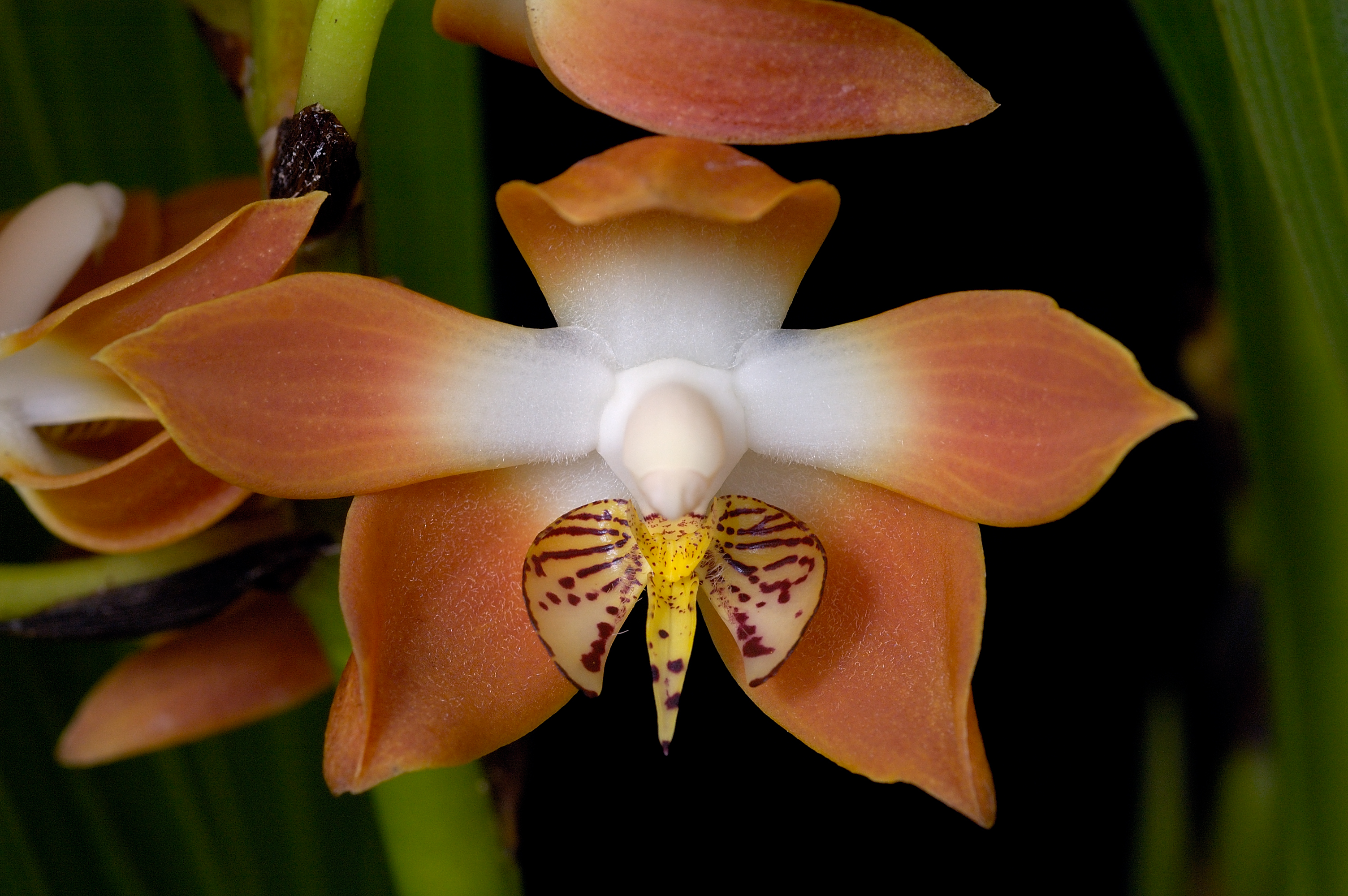 Neomoorea irrorata (syn.: Neomoorea wallisii), orchid species from Panama and Colombia